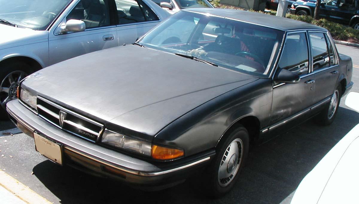 1987-1991 Pontiac Bonneville photographed in USA.